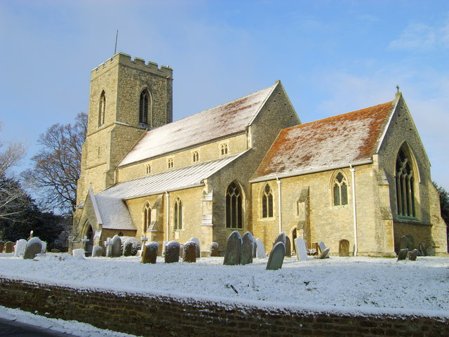 St. Mary's Church, Wavendon The 13th C church stands at the heart of the village which was listed in the Domesday Book and which now stands as one of the 'gateways' into the modern city of Milton Keynes. The village is flanked by arable farmland, but by 2020 this will all have become urban land.